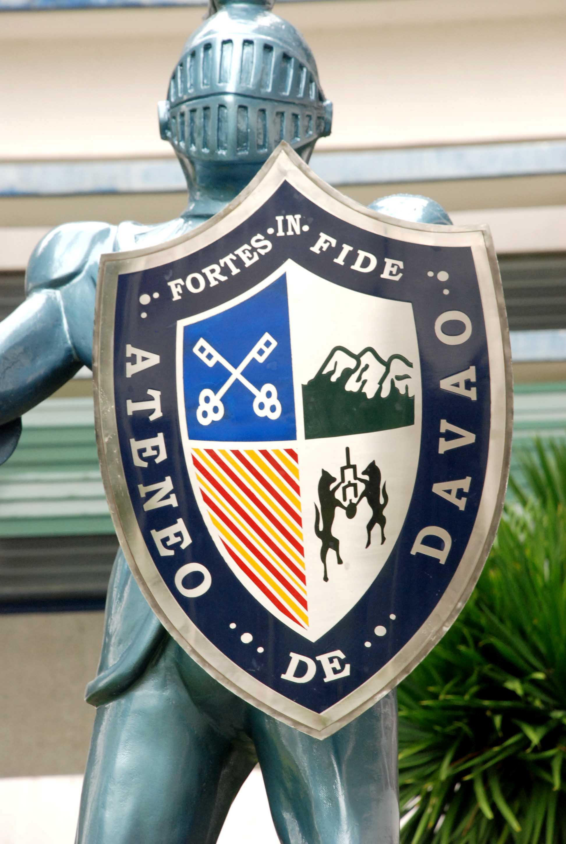 BKnight